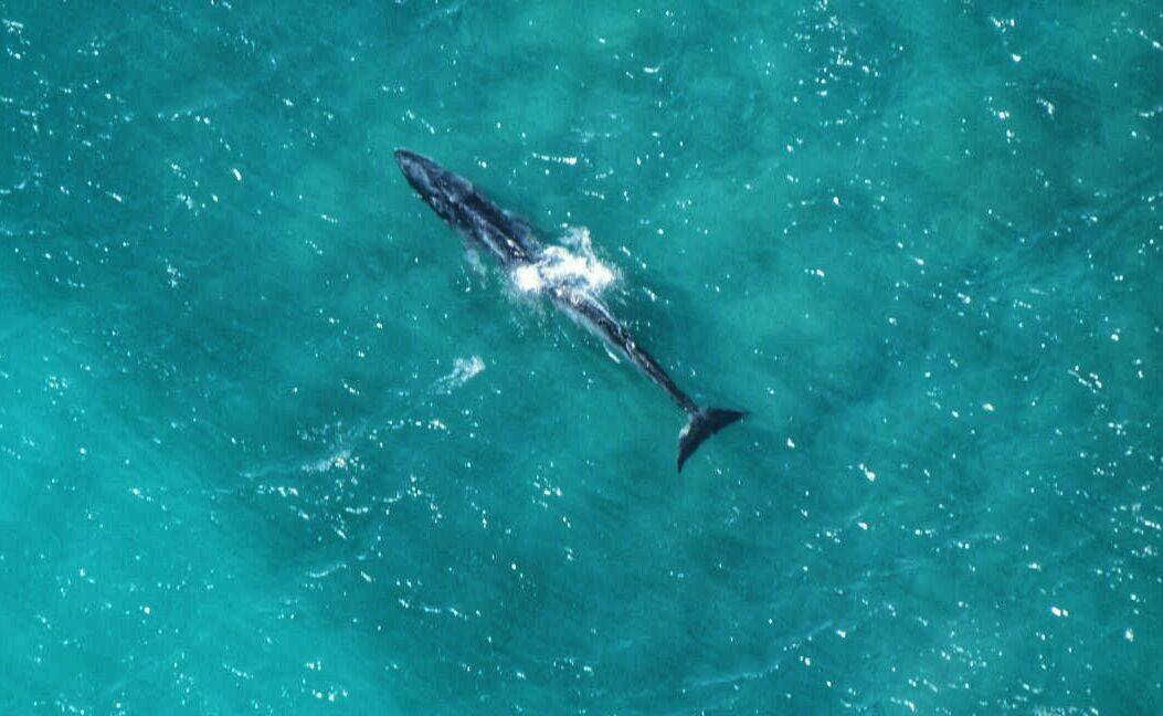 Fin whale (Balaenoptera physalus), photo by the Israeli Police